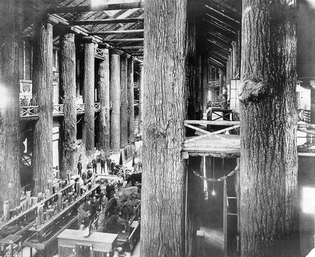 Interior of Forestry Bldg. at the Lewis and Clark Centennial, Portland, Ore., 1905. Displays; pillars of huge trees, stuffed animals. Lib. of Congress